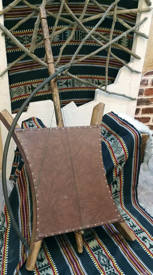 Rebab a musical instrument. From Yemen.